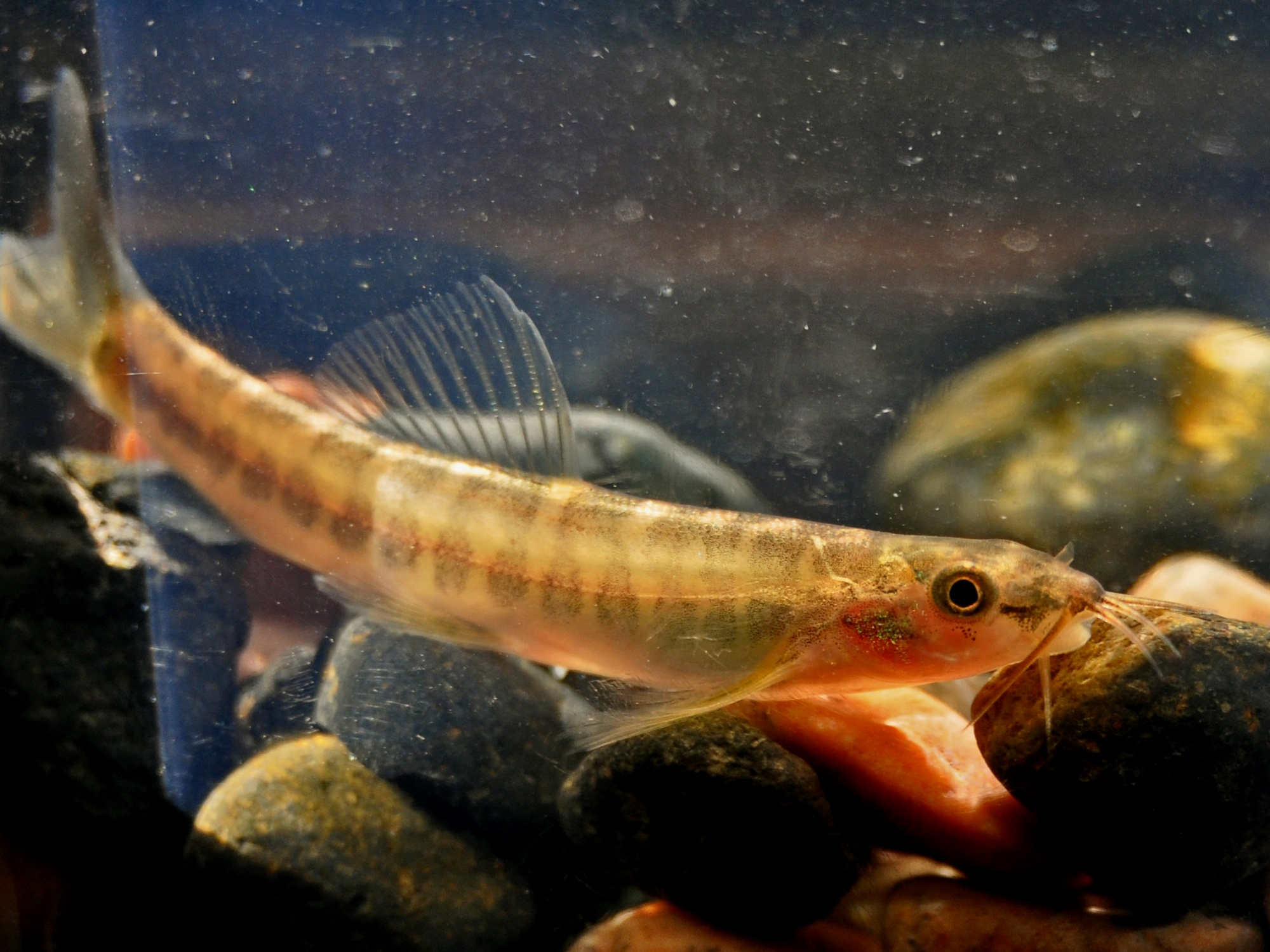 Nemacheilus chrysolaimos, from Cihideung Hilir, Bogor, West Java, Indonesia.